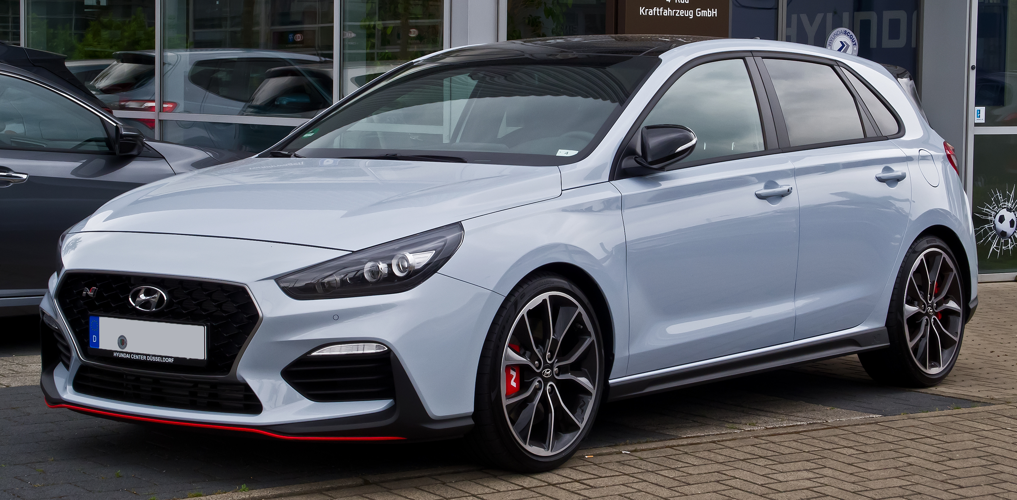 Hyundai i30 N Performance (III)